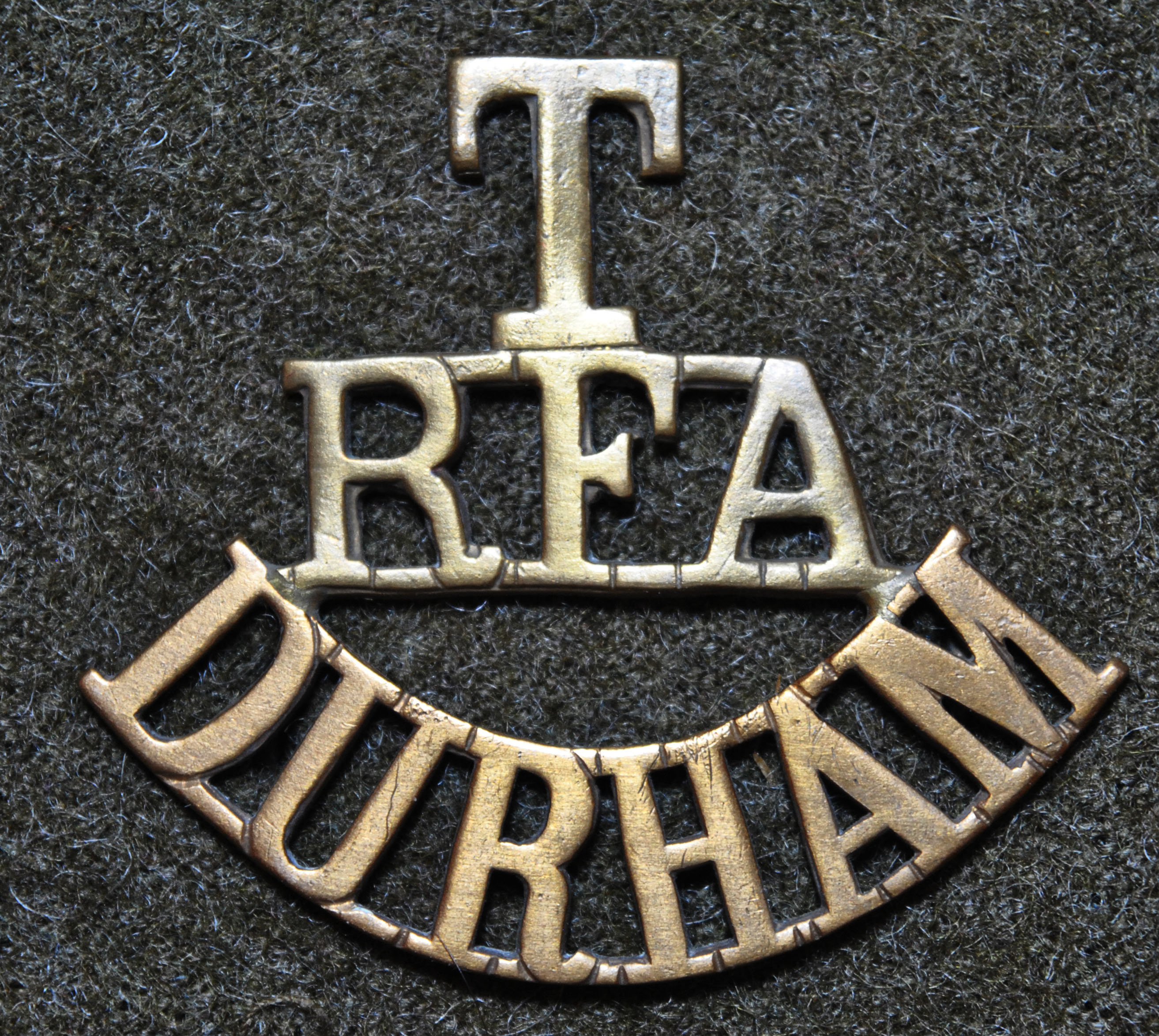 Territorial brass shoulder title of the Durham Royal Field Artillery (Territorial Force), c1910